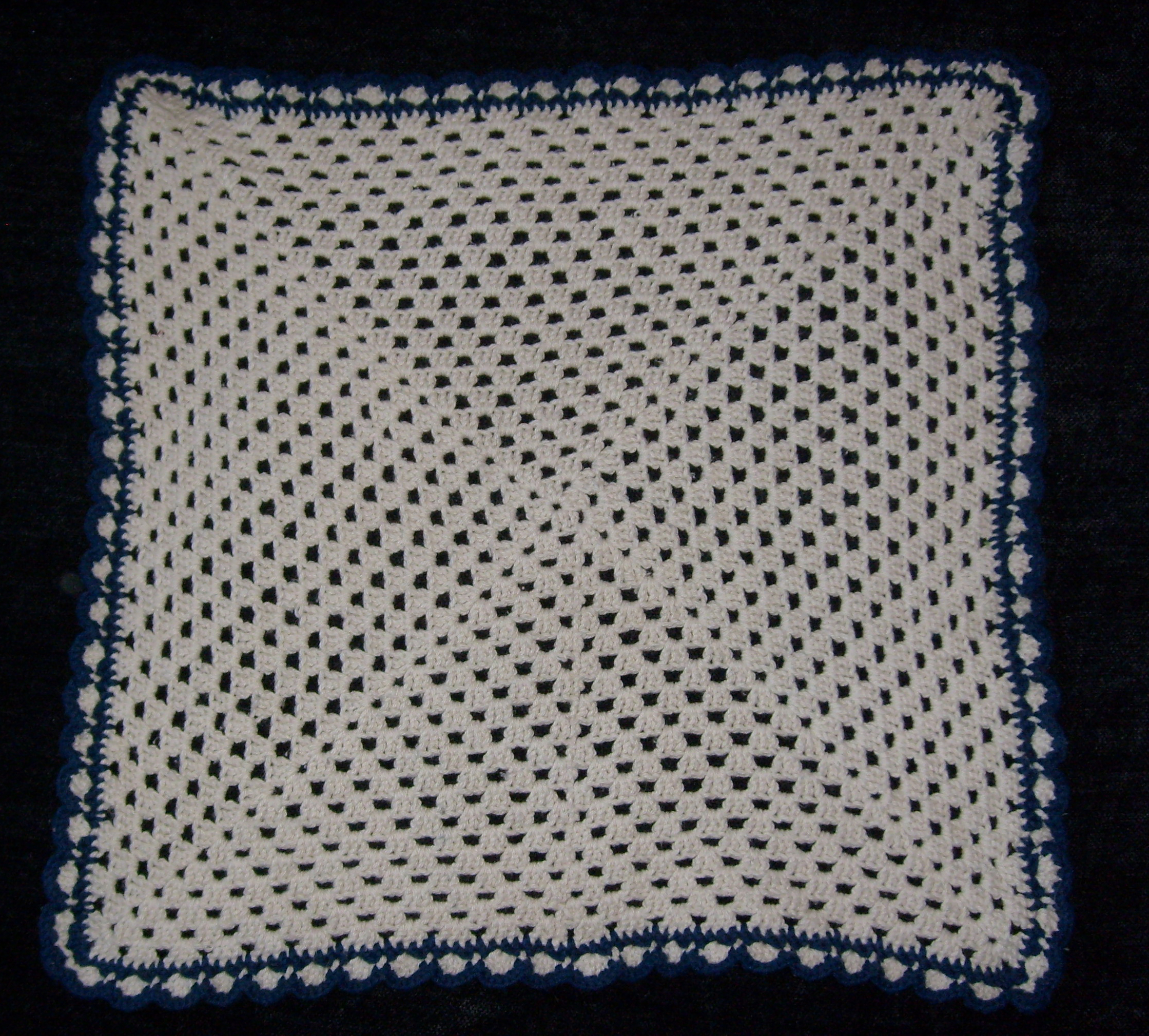 Cat blanket. Crochet: single granny square with scalloped edge, cotton. Original design.